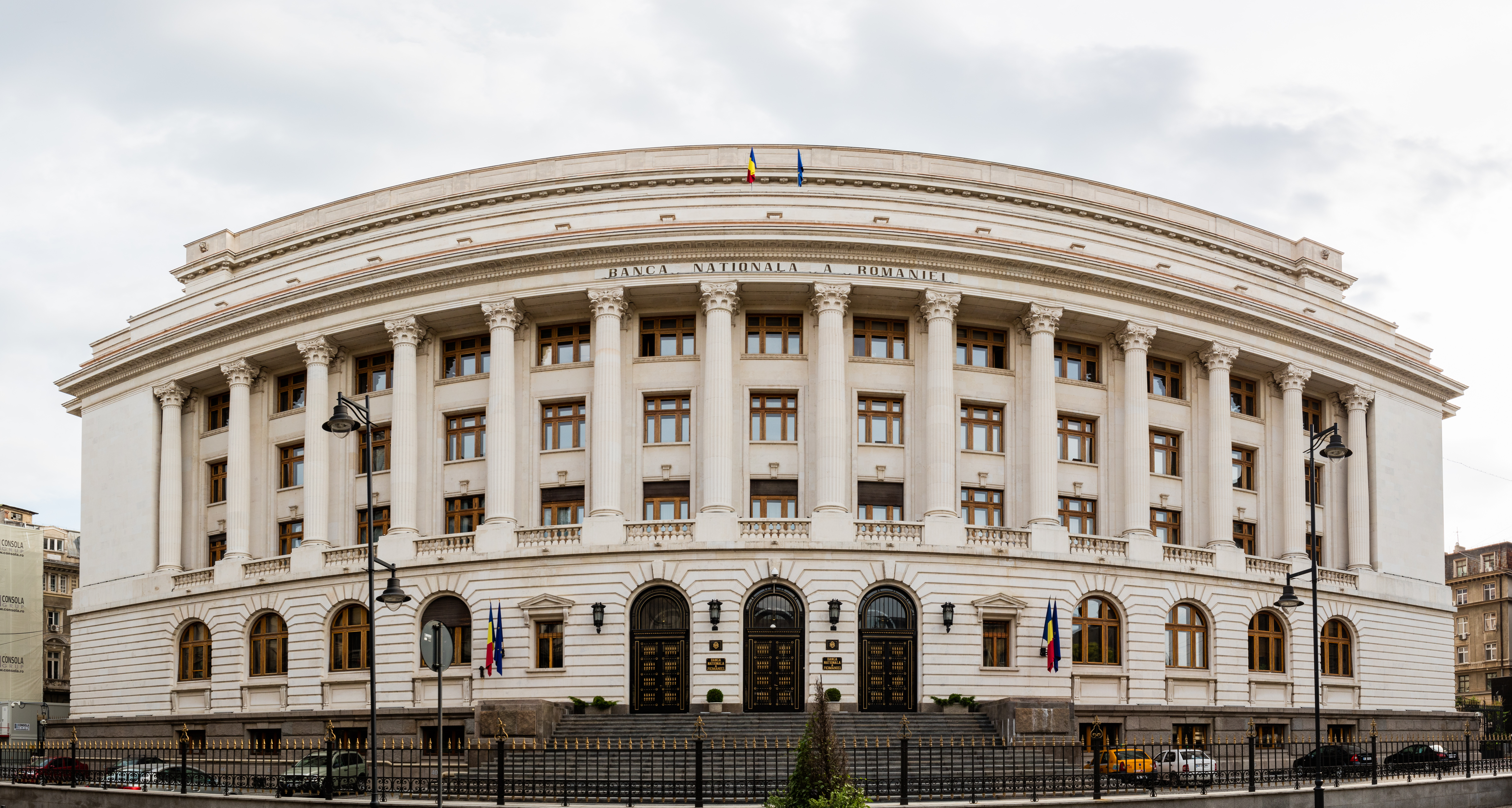 Romanian National Bank, Bucharest, Romania